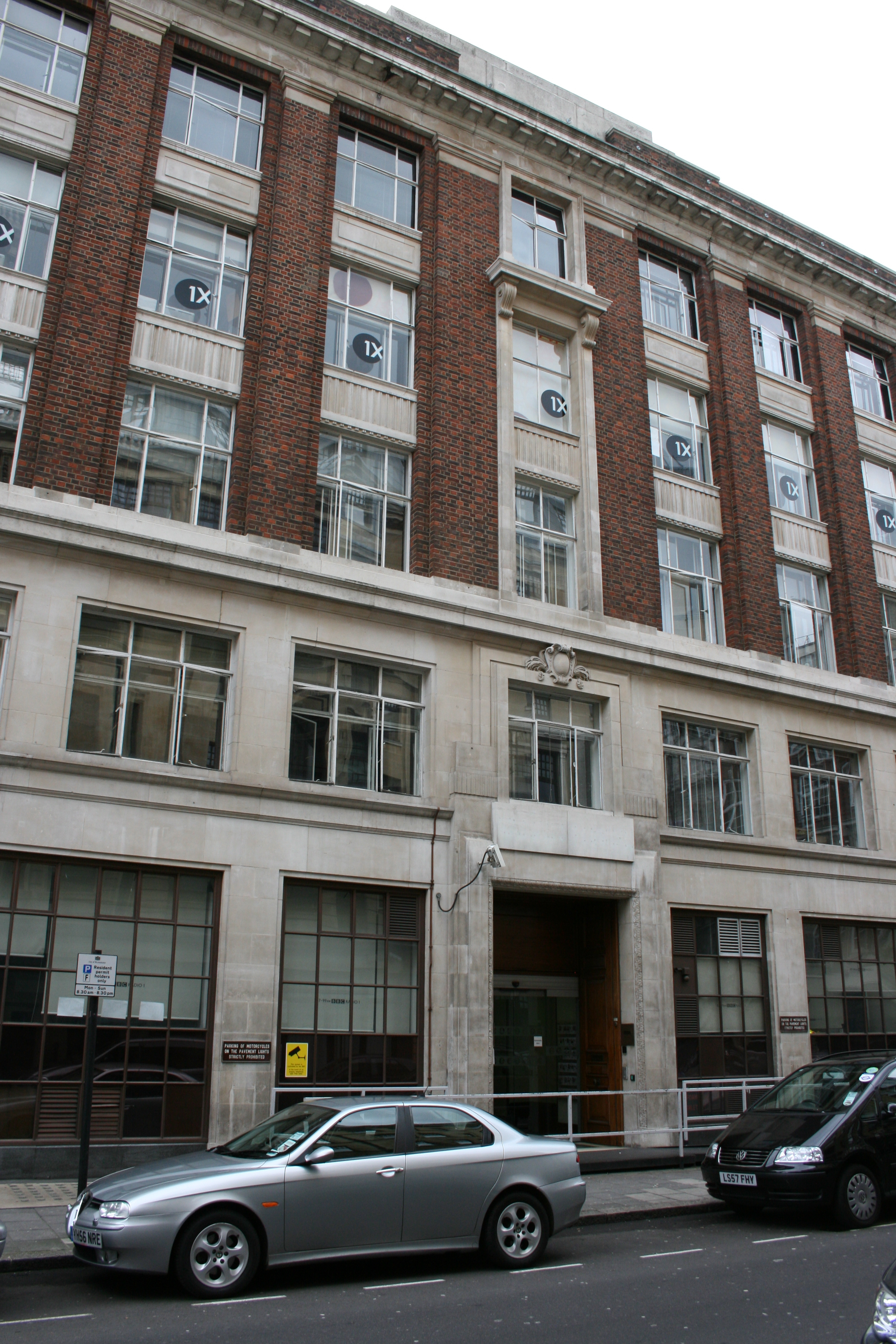 Yalding House on Great Portland Street, London. Currently the home of BBC Radio 1 and BBC Radio 1Xtra.